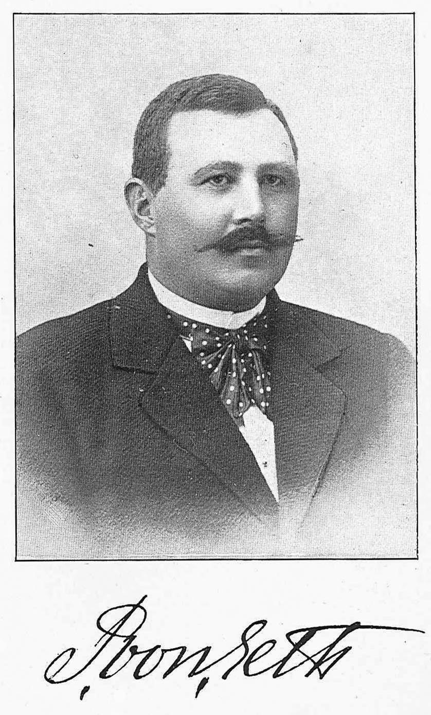 Pehr von Seth (1867-1940), Swedish nobleman, jurist and Justitieråd (member of the Supreme Court of Sweden)